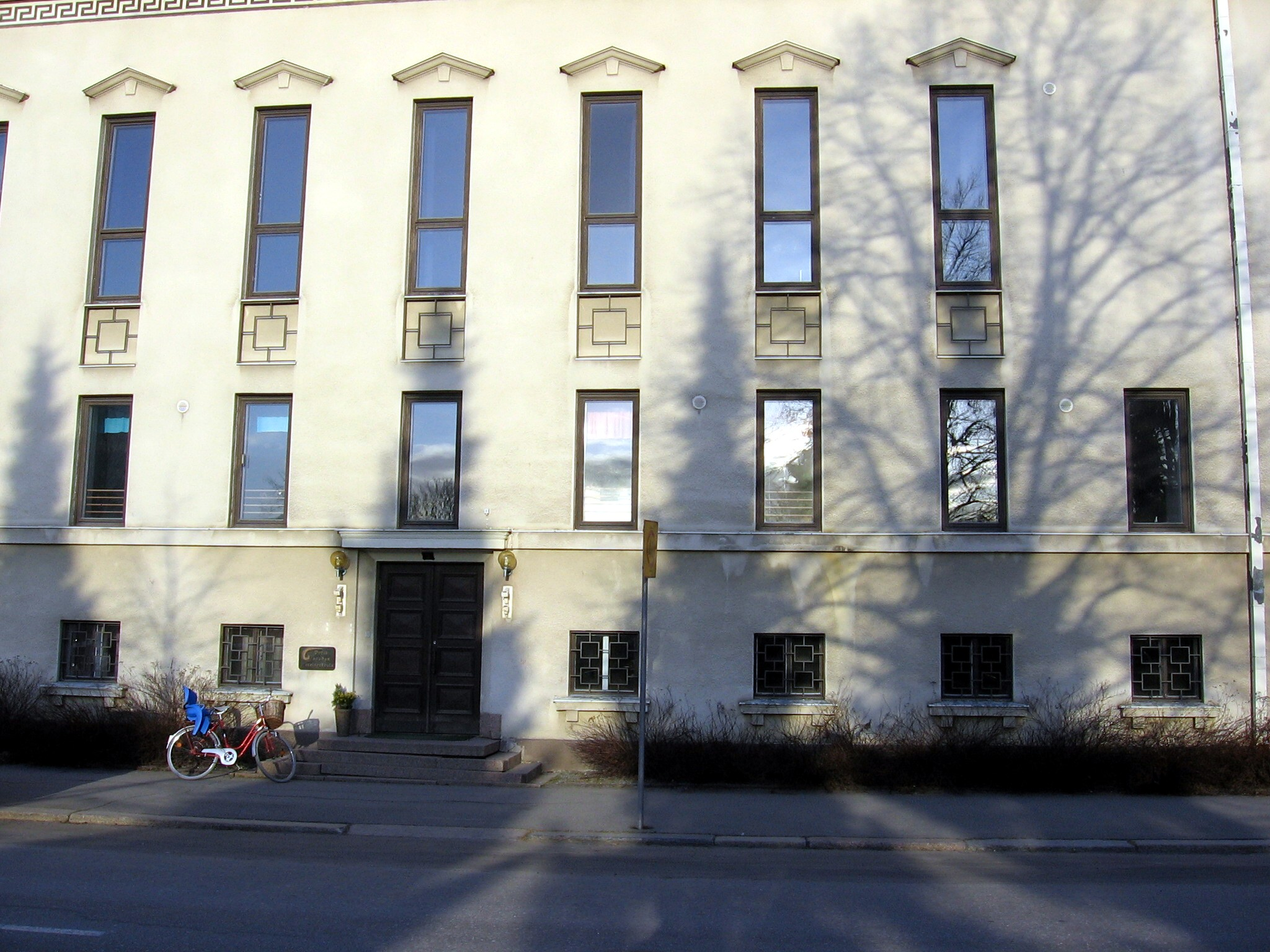 Pori Steiner School